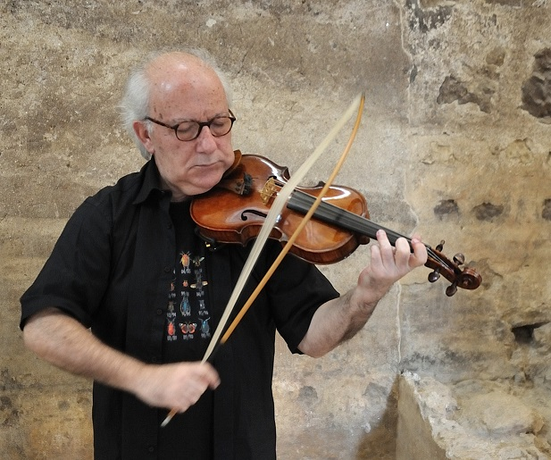 Carlos Zingaro plays the Curved Bow